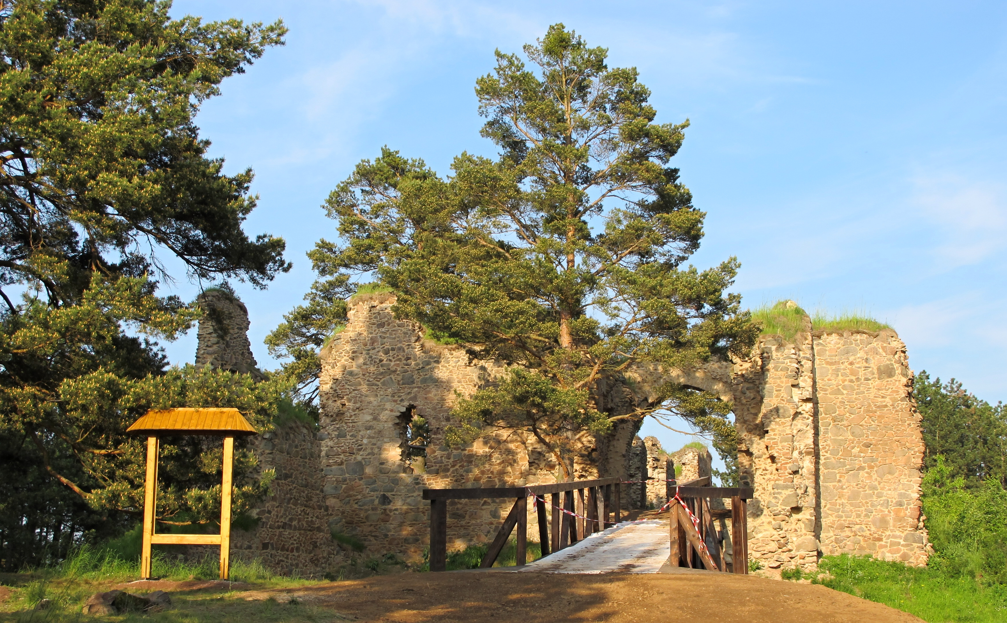 ruins of Vrškamýk Castle near Kamýk nad Vltavou, Příbram District